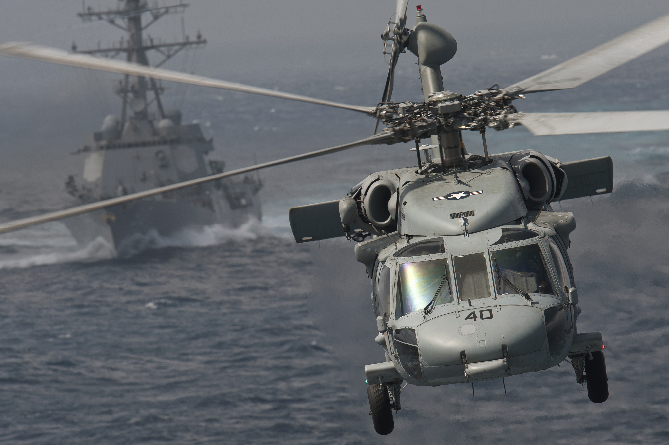 PACIFIC OCEAN (Jan. 2, 2012) An MH-60S Knight Hawk assigned to Helicopter Sea Combat Squadron (HSC) 23 passes the Arleigh Burke-class guided-missile destroyer USS Chafee (DDG 90) while delivering supplies to the Nimitz-class aircraft carrier USS Carl Vinson (CVN 70) during a vertical replenishment at sea with the Military Sealift Command fast combat support ship USNS Bridge (T-AOE 10). Carl Vinson and Carrier Air Wing (CVW) 17 are underway on a western Pacific deployment. (U.S. Navy photo by Mass Communication Specialist 2nd Class James R. Evans/Released)